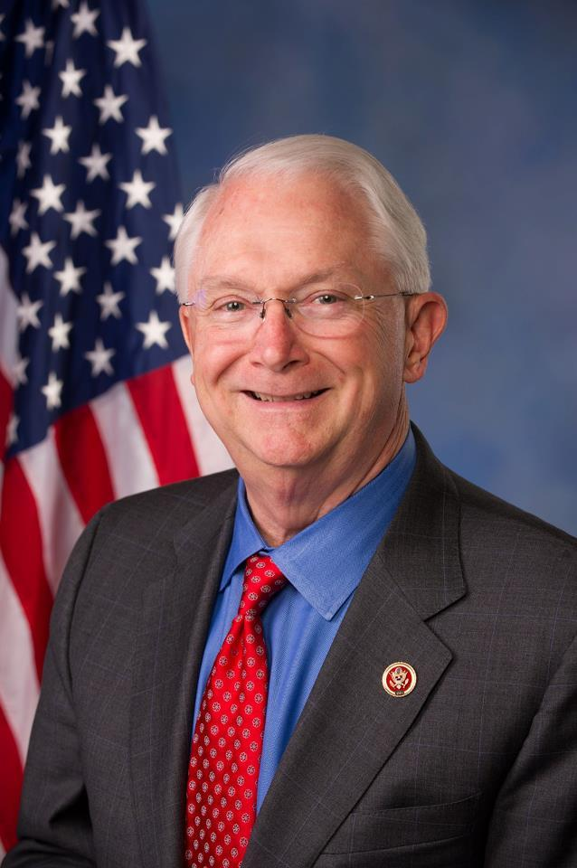 Randy Neugebauer, member of the United States Congress.